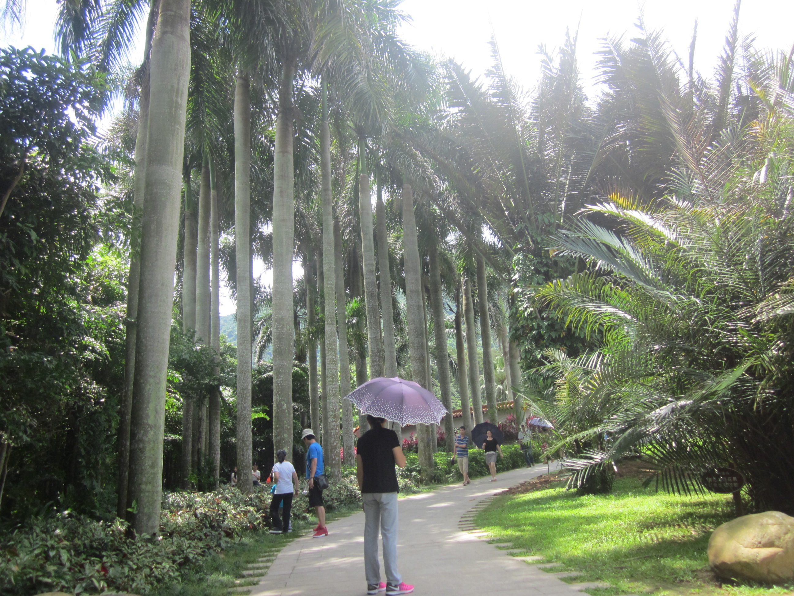 Hongfa Temple (弘法寺), is a Buddhist temple located in Bao'an District of Shenzhen city, south China's Guangdong province.